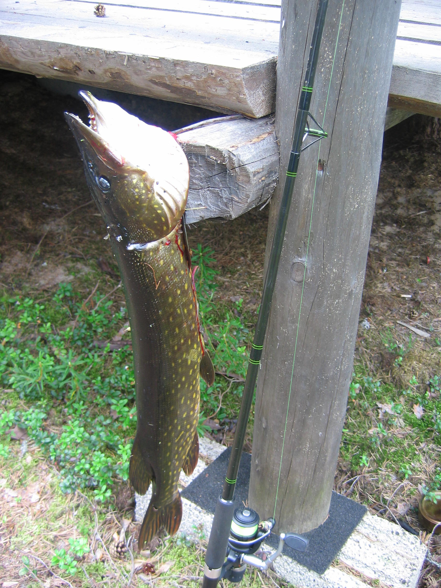 A 4–5 kg Northern pike (Esox lucius) caught in the river of Piltua in Pudasjärvi, Finland